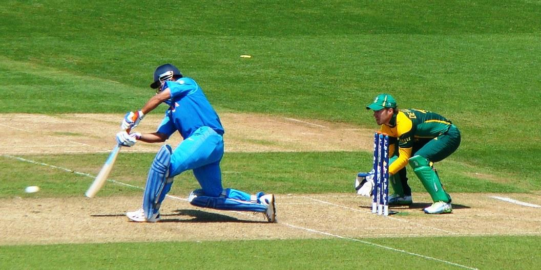 Indian captain MS Dhoni batting against South Africa during the group stage match of 2013 ICC Champions Trophy. South African captain AB de Villiers is keeping wickets.